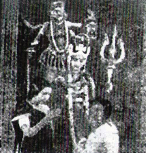 This is a still picture from the 1931 tamil film Kalidas. The movies producers were Ardeshir Irani and Imperial Movie Tones.